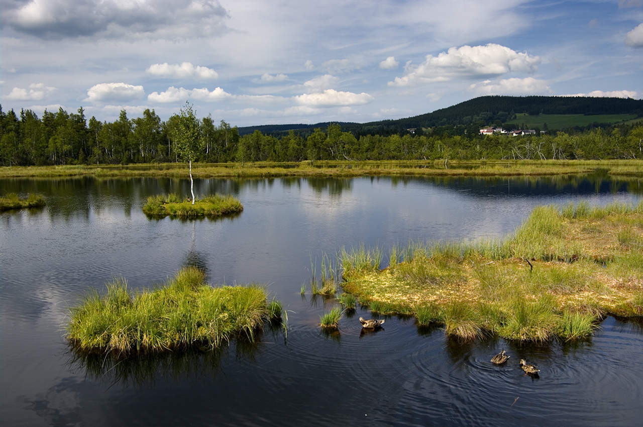 Chalupske slate at teh Bohemian Forest